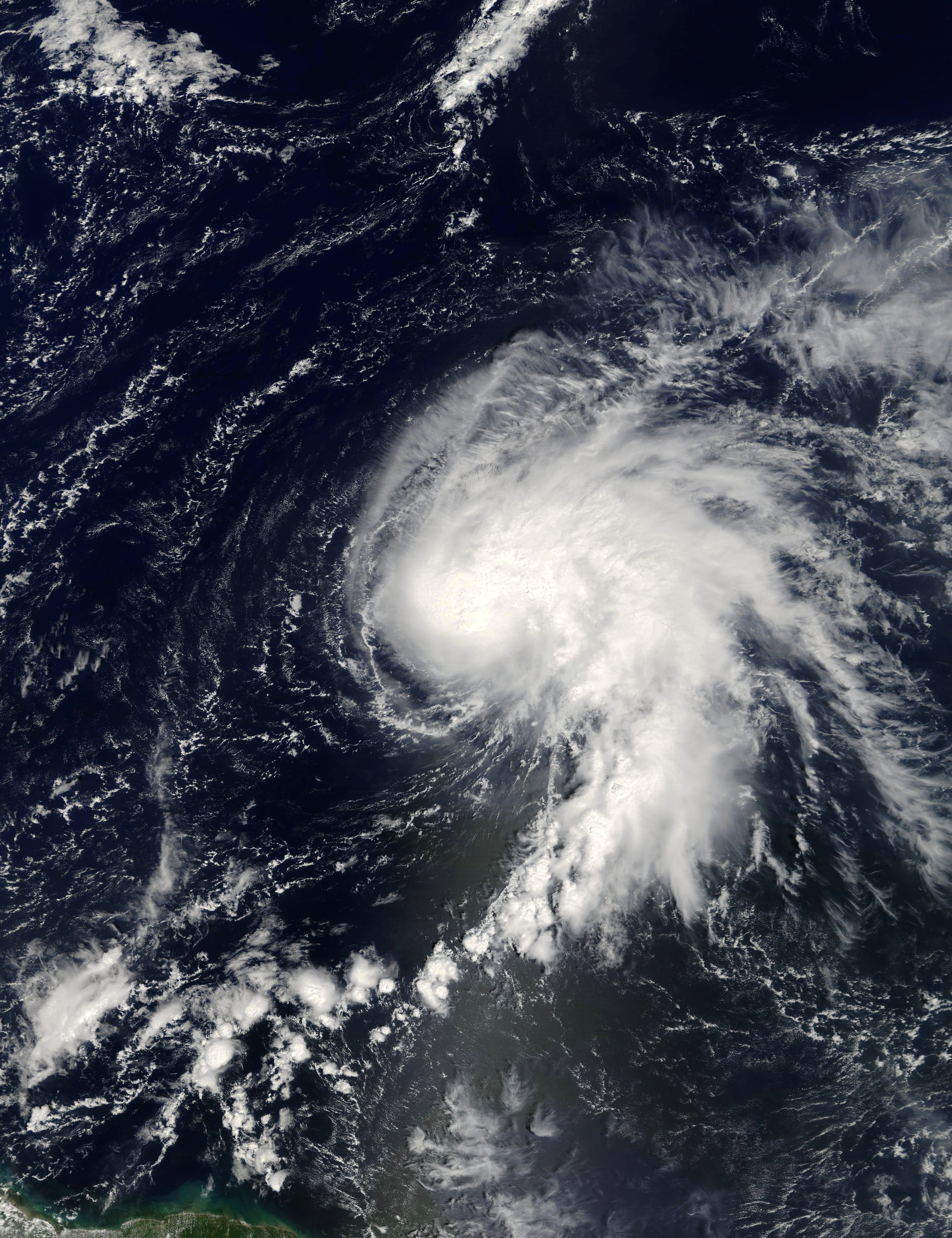 Tropical Storm Nicholas on October 17, 2003